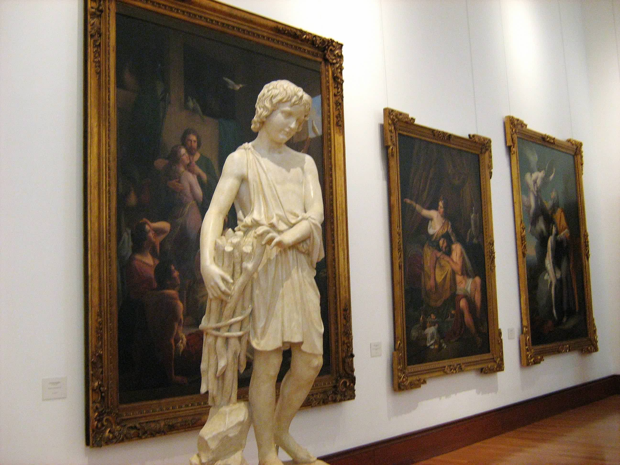 National Museum of Art, México City, Museum Interior